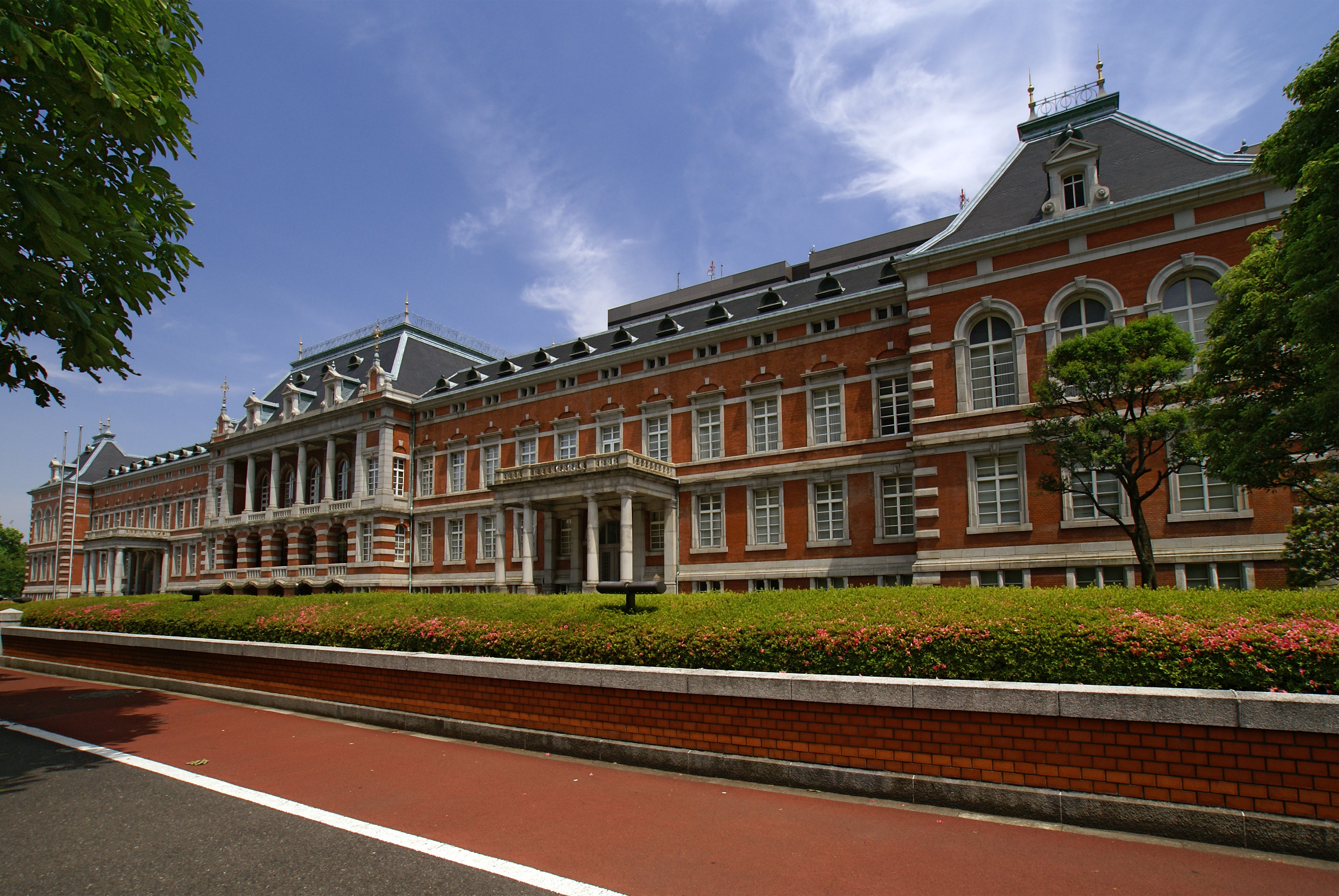 Ministry of Justice Older Administration Building in Chiyoda-ku, Tokyo, Japan